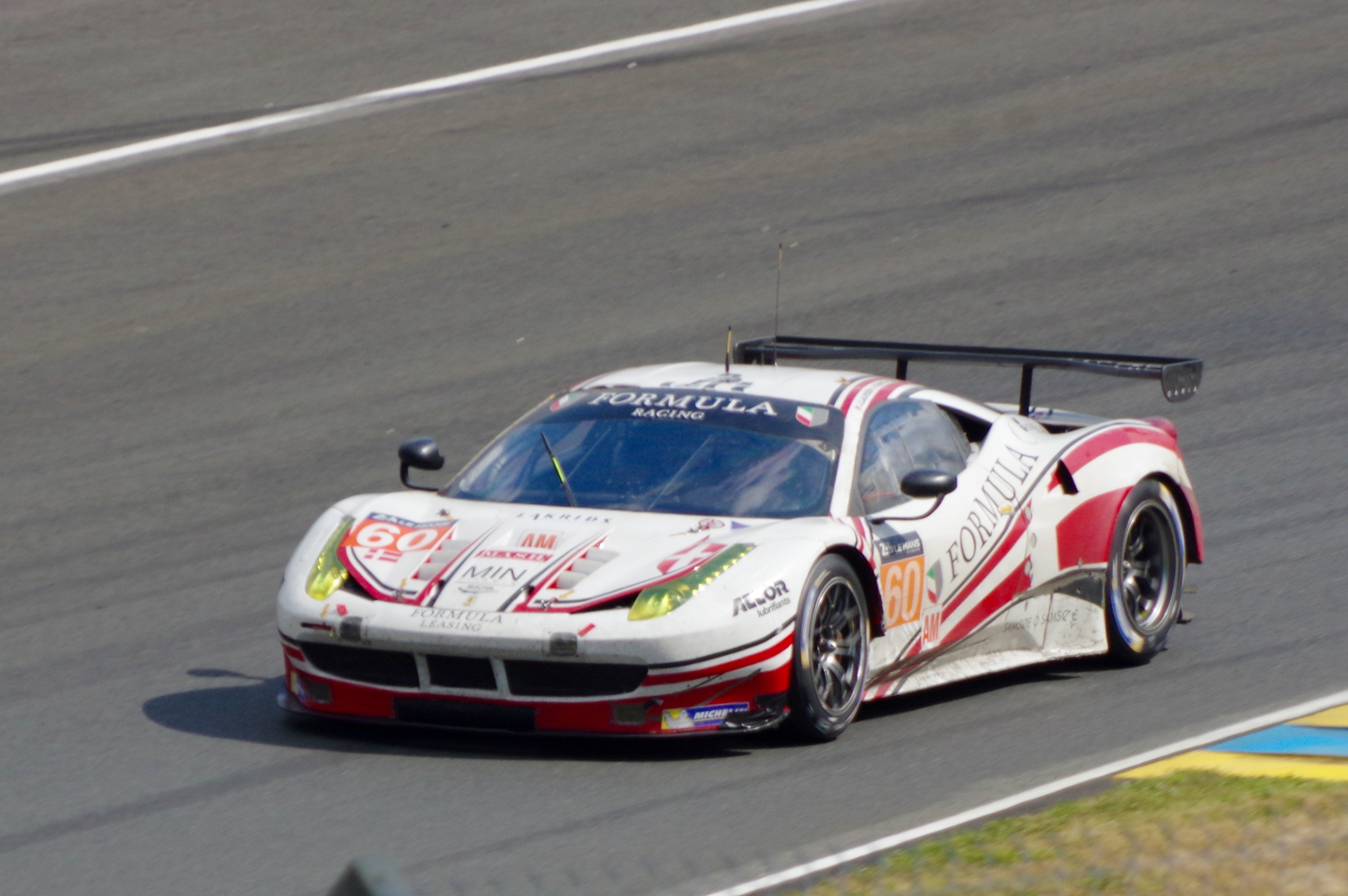 Formula Racing's Ferrari 458 Italia GT2 Driven by Johnny Laursen, Christina Nielsen and Mikkel Mac Le Mans 24 Hours 2016